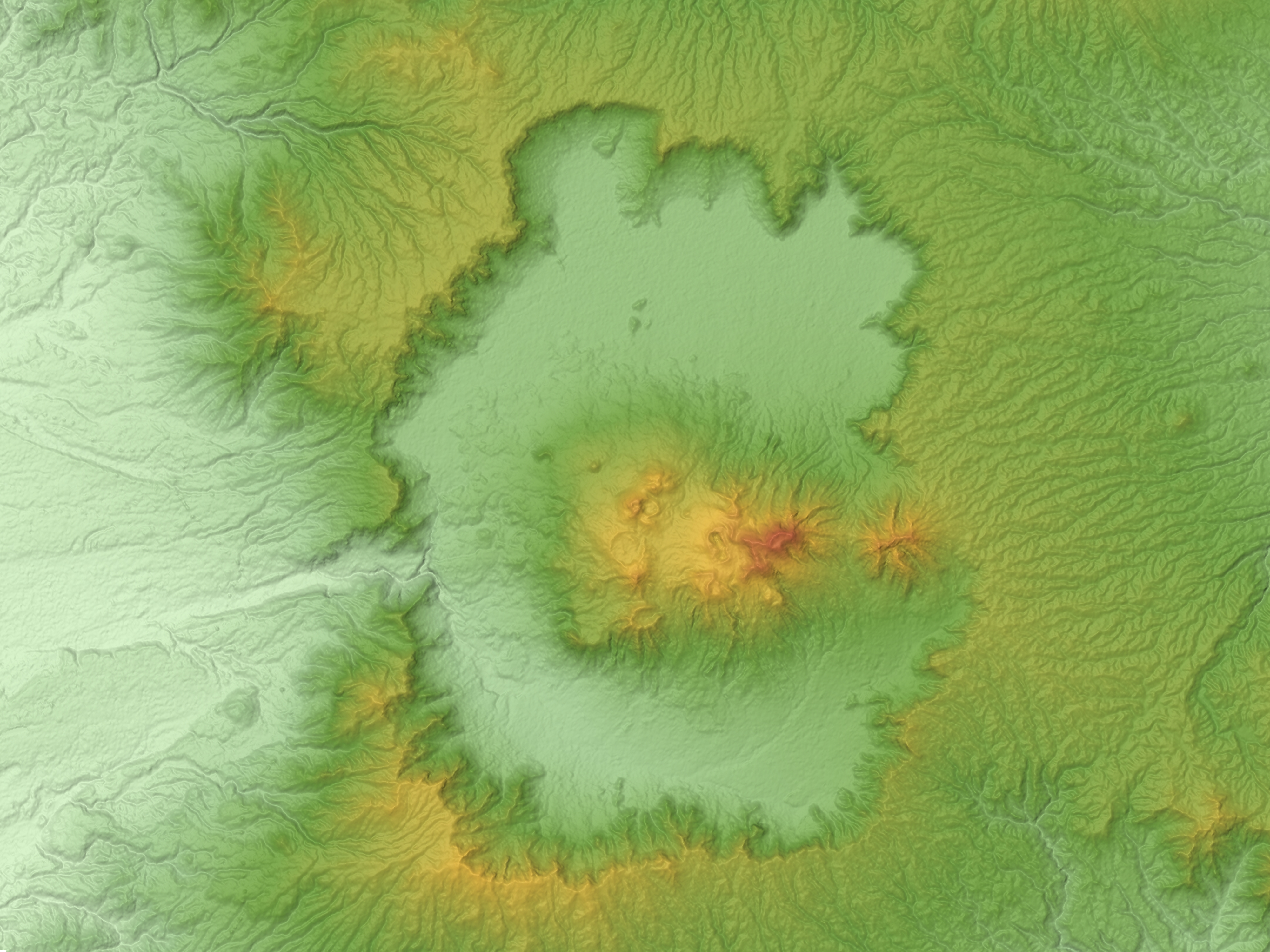 Aso Volcano & Caldera in Kumamoto Prefecture, Japan. This file updated by 30m Mesh.